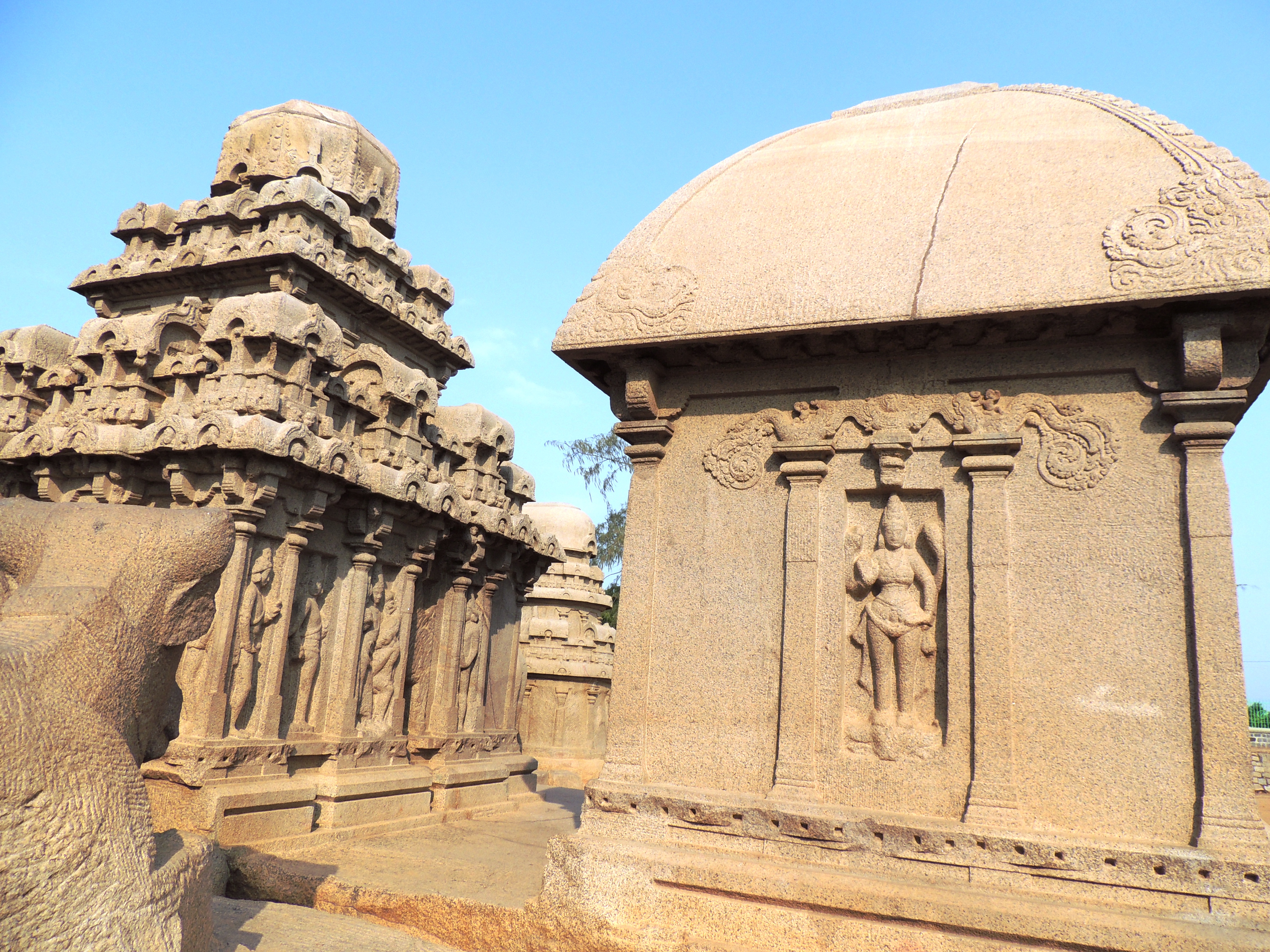 Draupathi Ratha